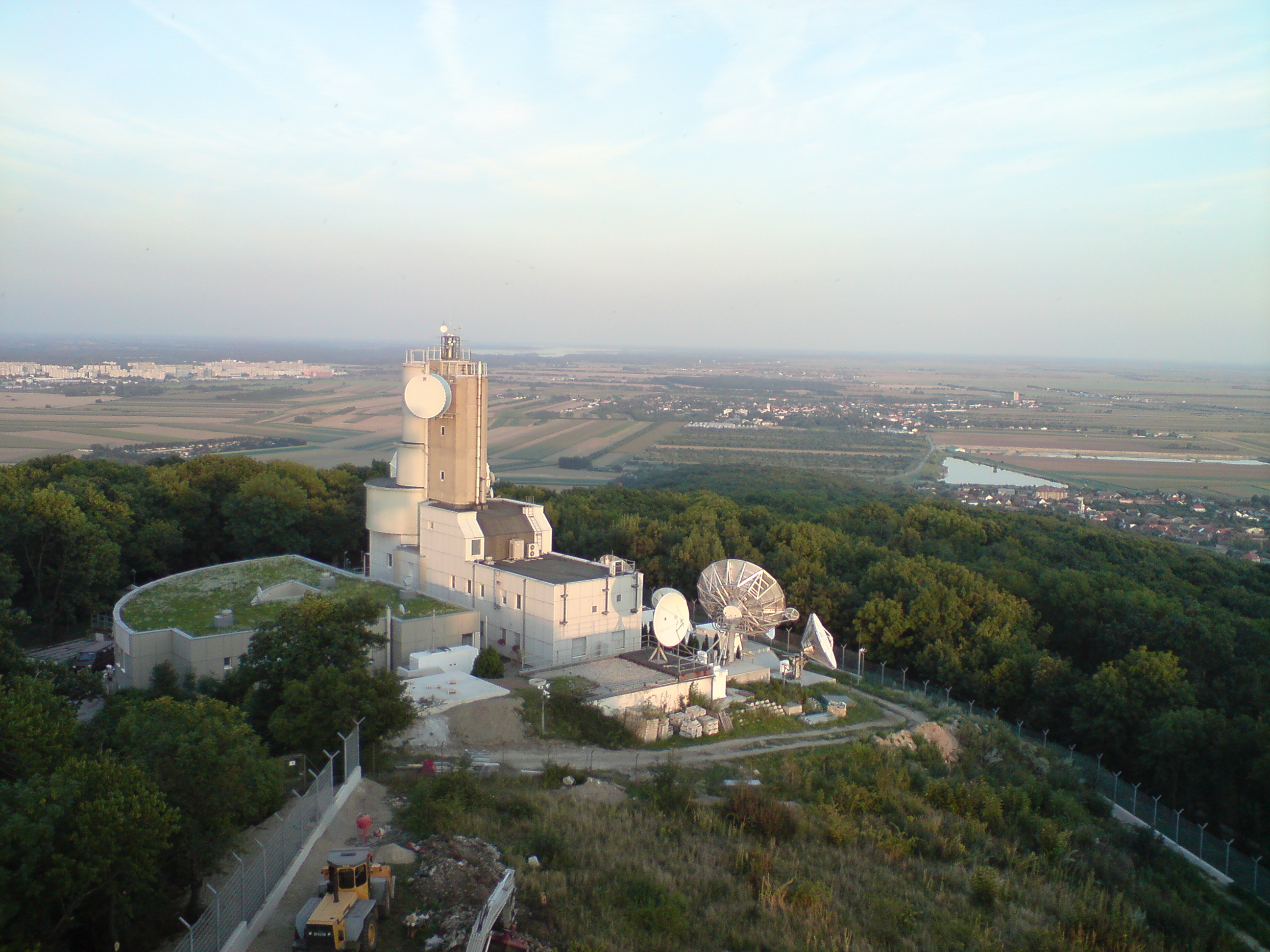 Nature in Austria near Bratislava